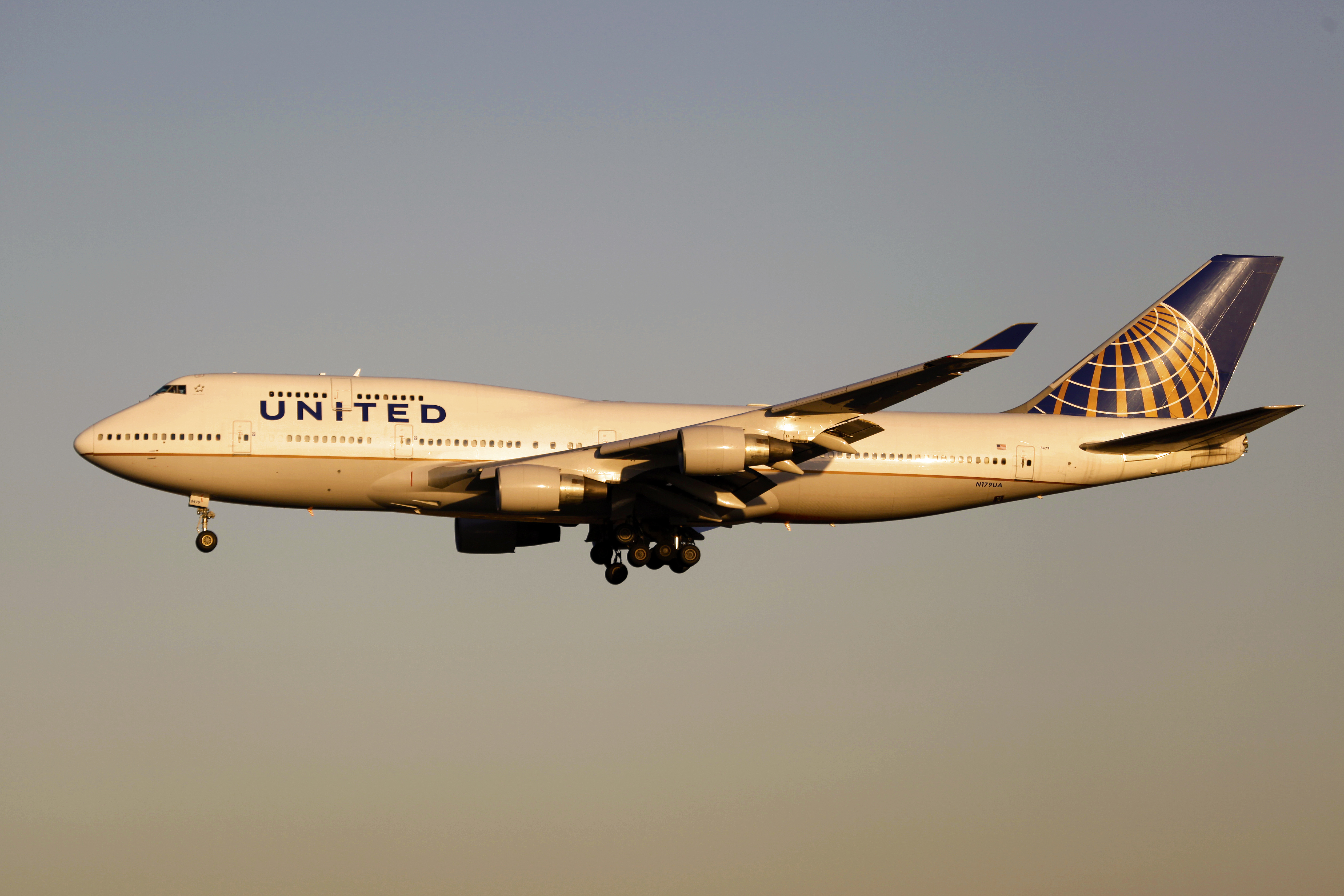 N179UA | United Airlines | Boeing 747-422 | Beijing Capital International Airport [PEK]